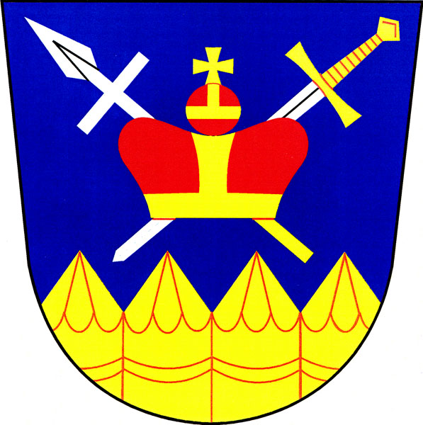 Coat of amrs of Zbečno , District Rakovník, Czech Republic